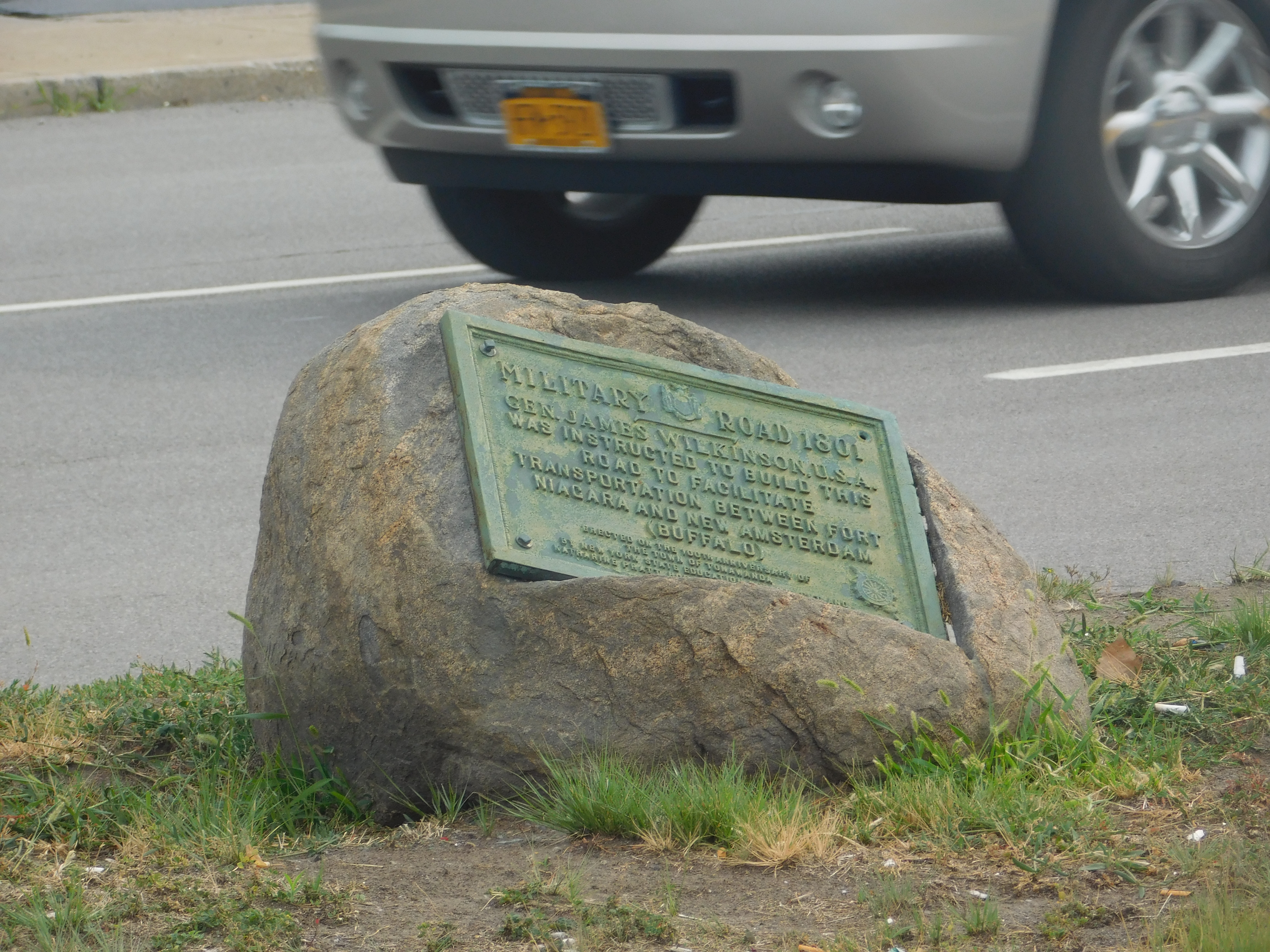 Military Road plaque along NY 324 (Sheridan Drive) in Tonawanda, New York.